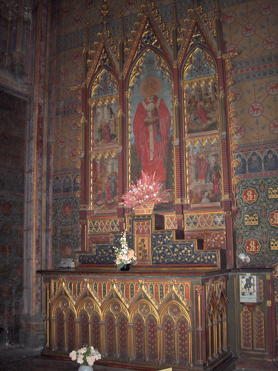 Bayonne, France; St Leon's chapel in the cathedral